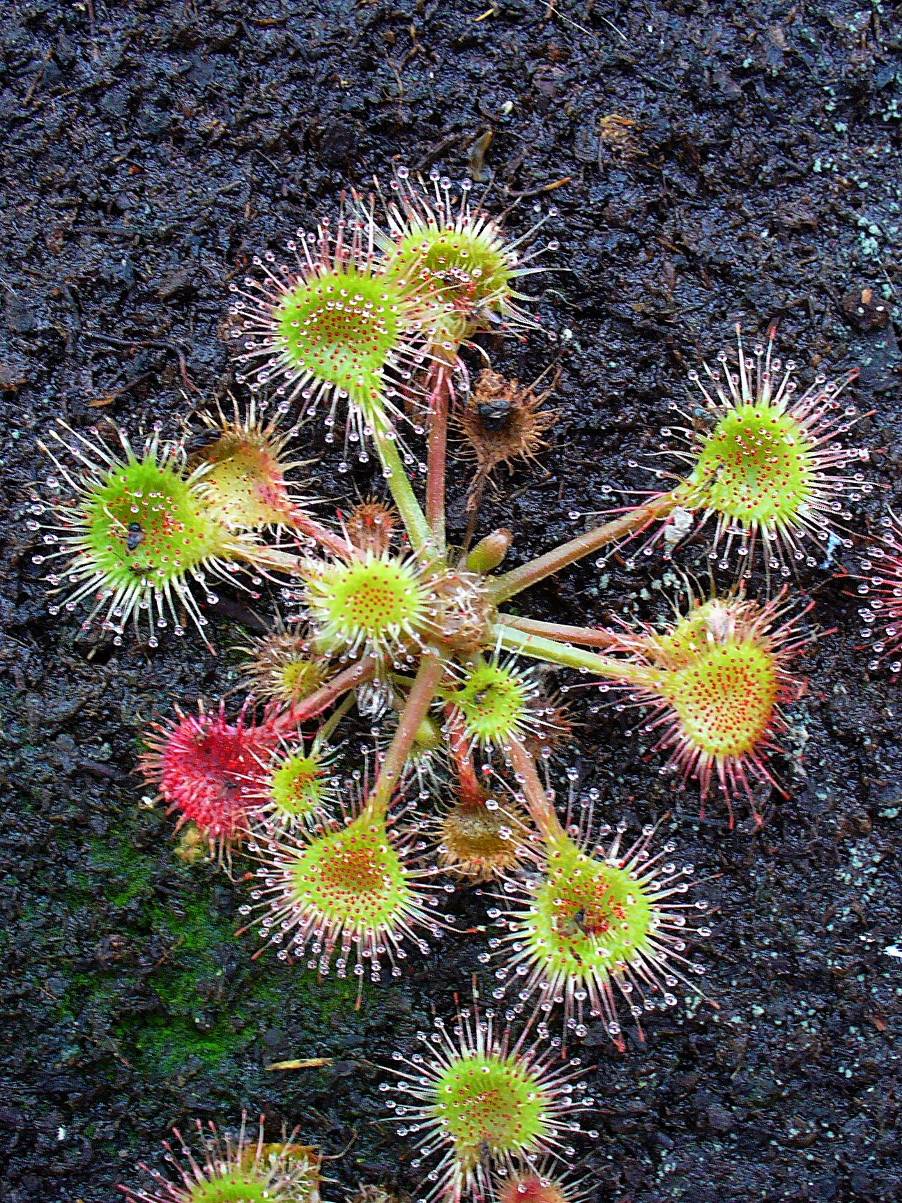 Drosera rotundifolia, Droseraceae, Common Sundew, habitus.